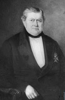 Pieter van Akerlaken